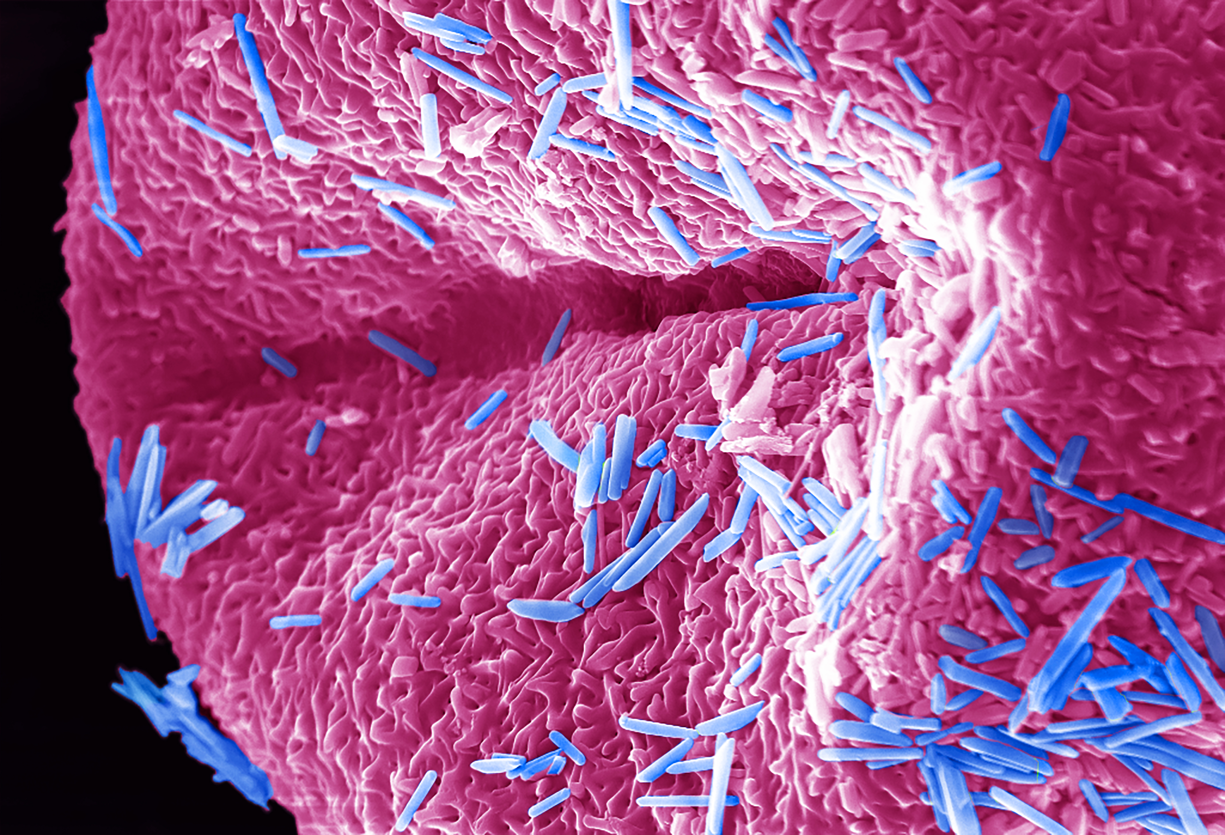 Colored micrograph taken with a scanning electron microscope. In blue : supramolecular pyrene derivative nanorods.